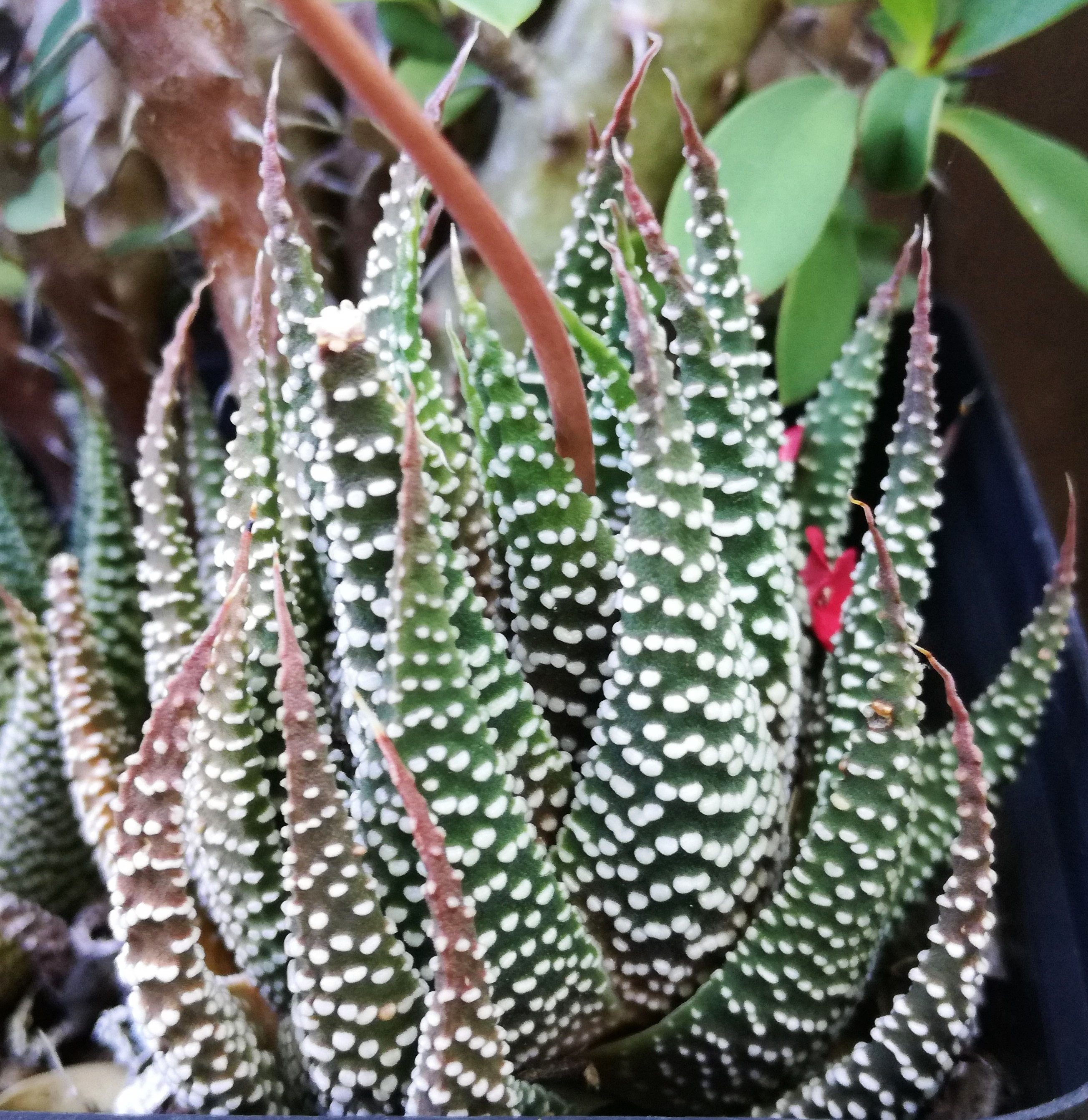 Tulista minima - haworthia minima in cultivation